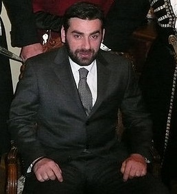 H.R.H. Prince Davit of Bagration, Heir to the Georgian Throne